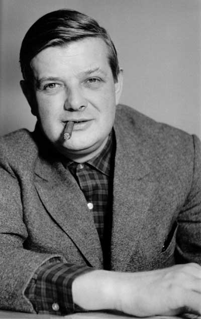 Photograph of Børge Mogensen, Danish furniture designer